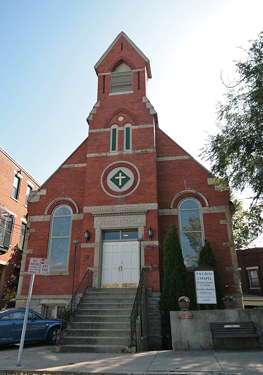 Pilgrim Presbyterian Church in Cincinnati. Photo by Greg Hume